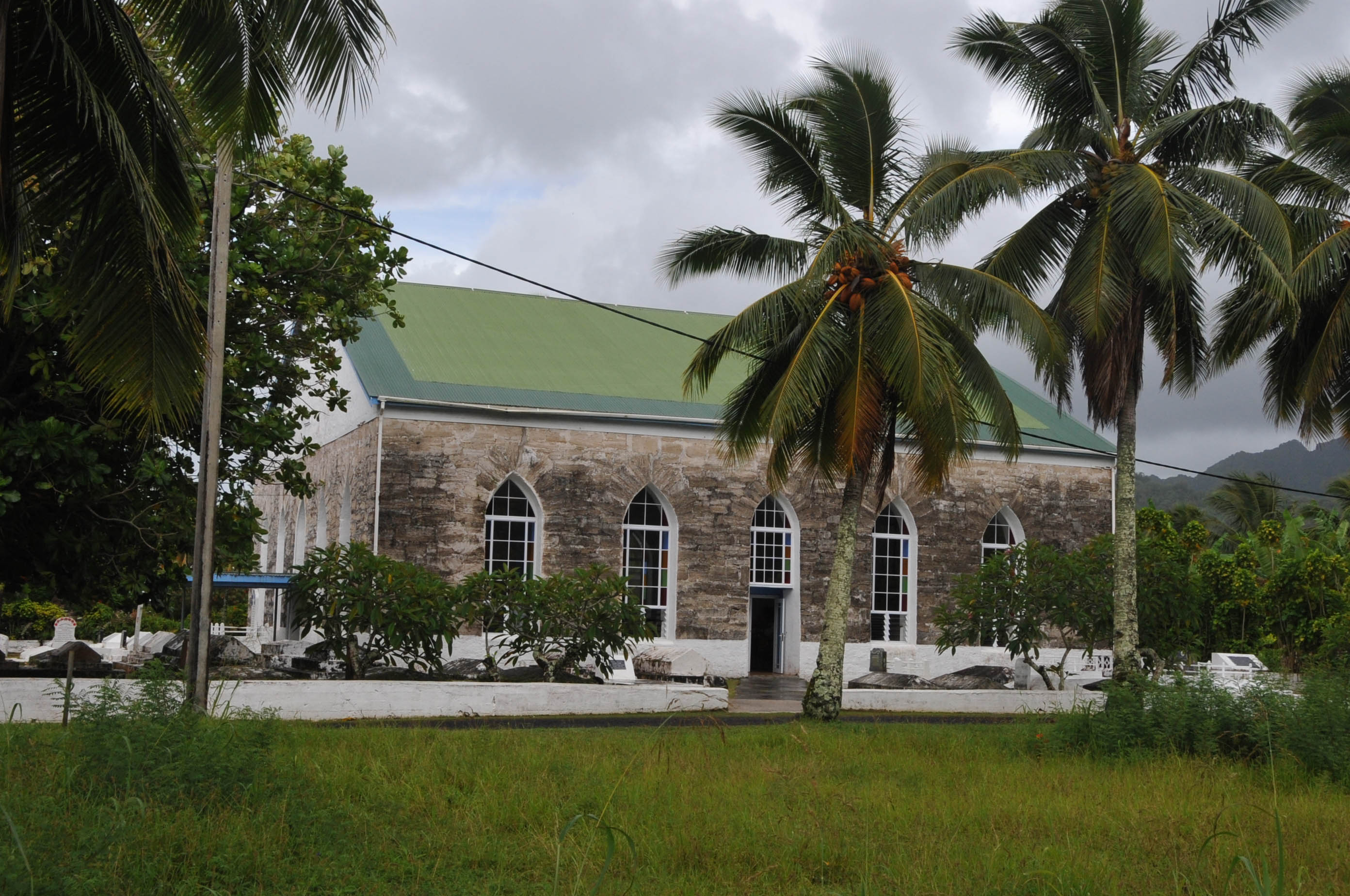 FIRST CHRISTIAN CHURCH ON THE ISLANDS AND BUILT OF CORAL AND LIMESTONE WITH A CEMENT MADE FROM LAVA. ONLY STRUCTURE ON THIS SIDE OF THE ISLAND TO SURVIVE THE HURRICANES AND TSUNAMIS